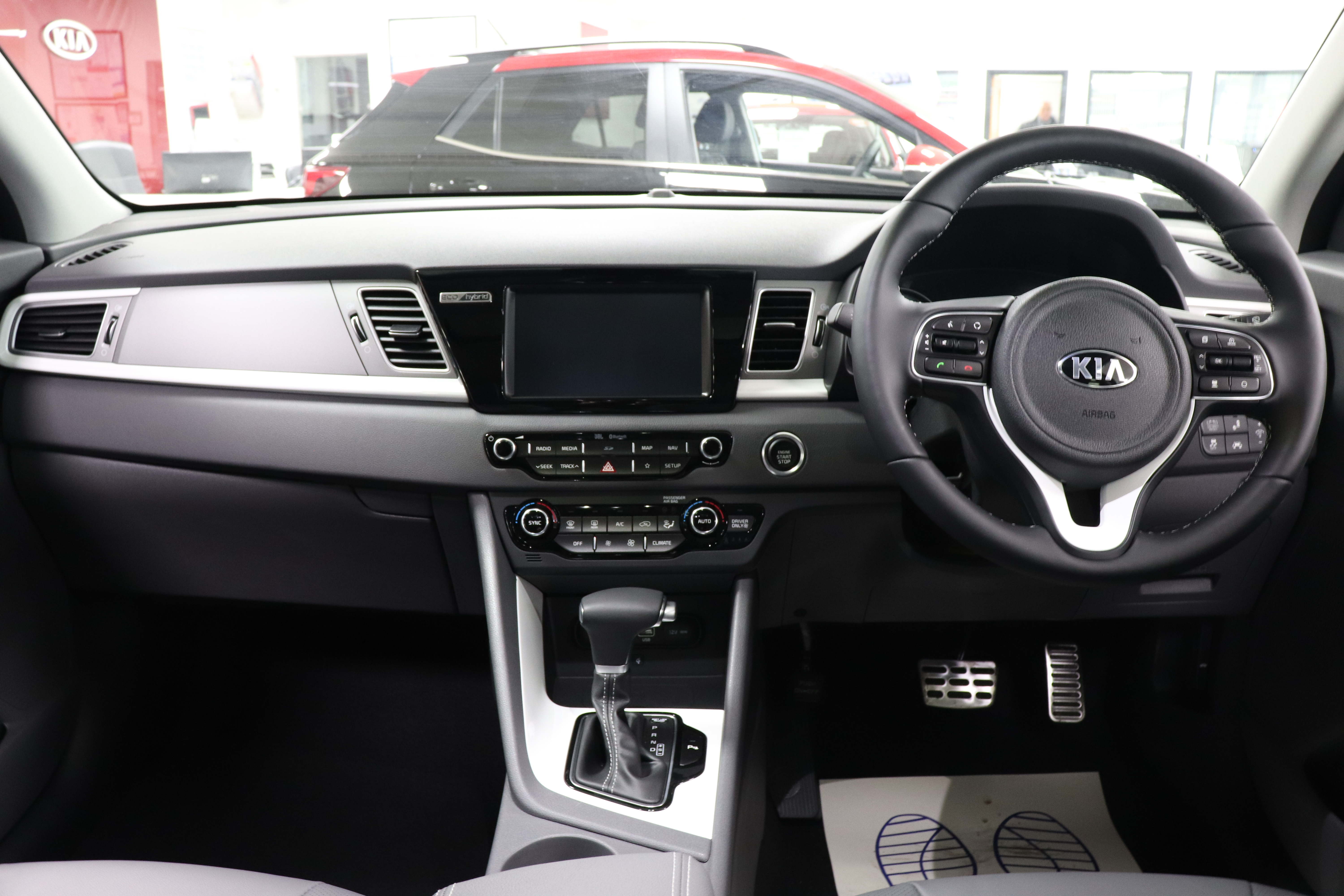 2017 Kia Niro Interior Taken in Warwick